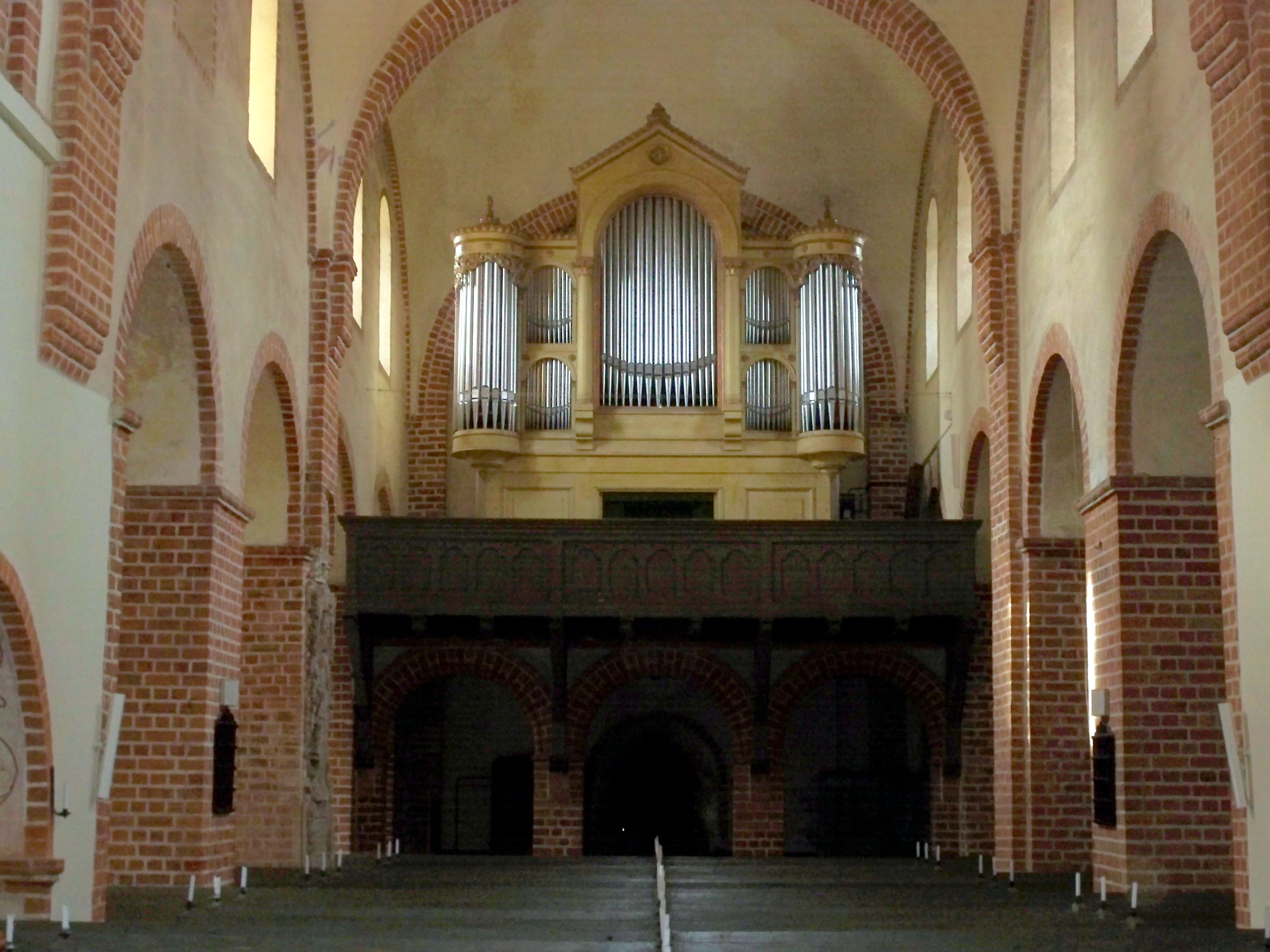 Arendsee, Saxony-Anhalt, church, view westwards